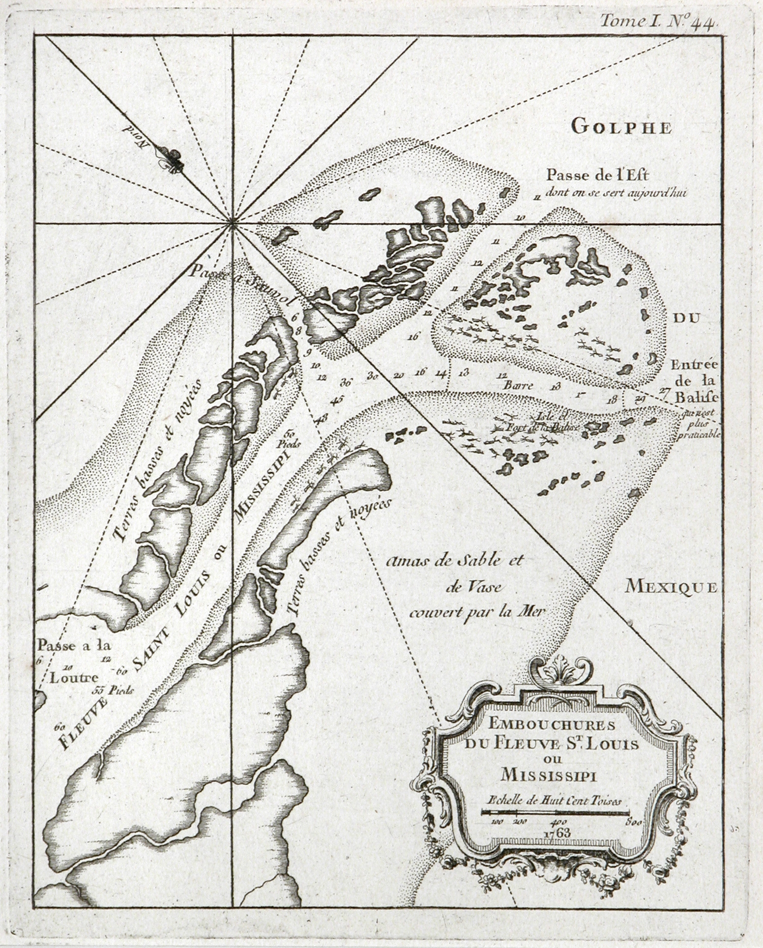 This small chart of the mouth of the Mississippi River shows sooundings, shoals, and a logjam in the river. Fort Balise is shown on the west bank and the whole is oriented with north to the upper left. The map appeared in Bellin’s Petit Atlas Maritime, an extraordinary five volume work containing several hundred maps. Jacques-Nicolas Bellin (born Paris 1703, died Versailles 21 March 1772) had a distinguished 50-year career as one of France’s leading cartographers. In 1721 he was appointed hydrographer to the French Navy upon the creation of France's hydrographic office, the Dépôt des cartes et plans de la Marine. Appointed "ingénieur hydrographe" in August 1741, he was also a member of the Académie de Marine and of the Royal Society of London. His maps of the French territories in North America are particularly valuable.